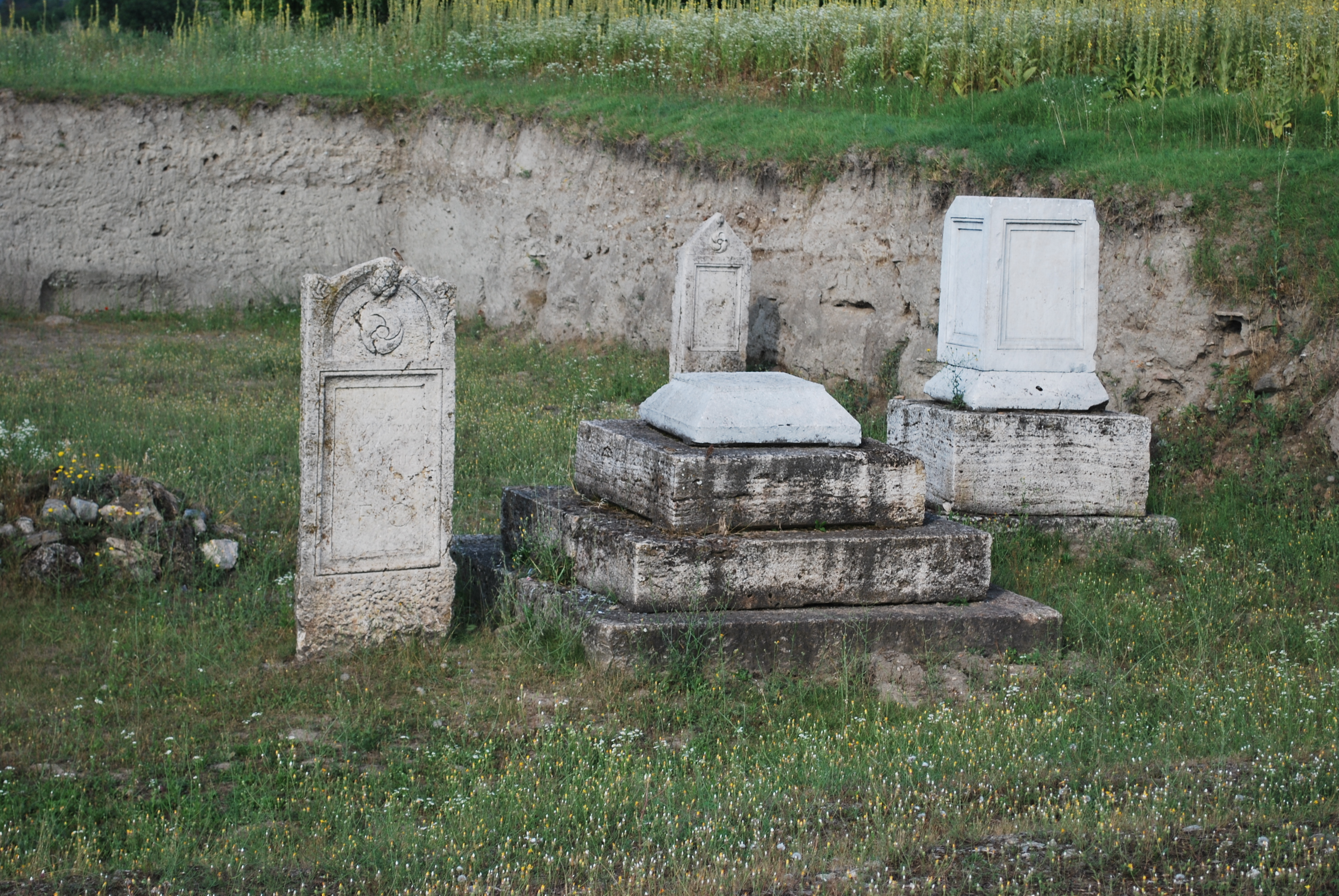 Scupi, Macedonia